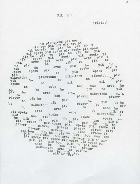 Poem of Pierre_Garnier "Pik bou" of the collection "Ozieux 1" (in picard)